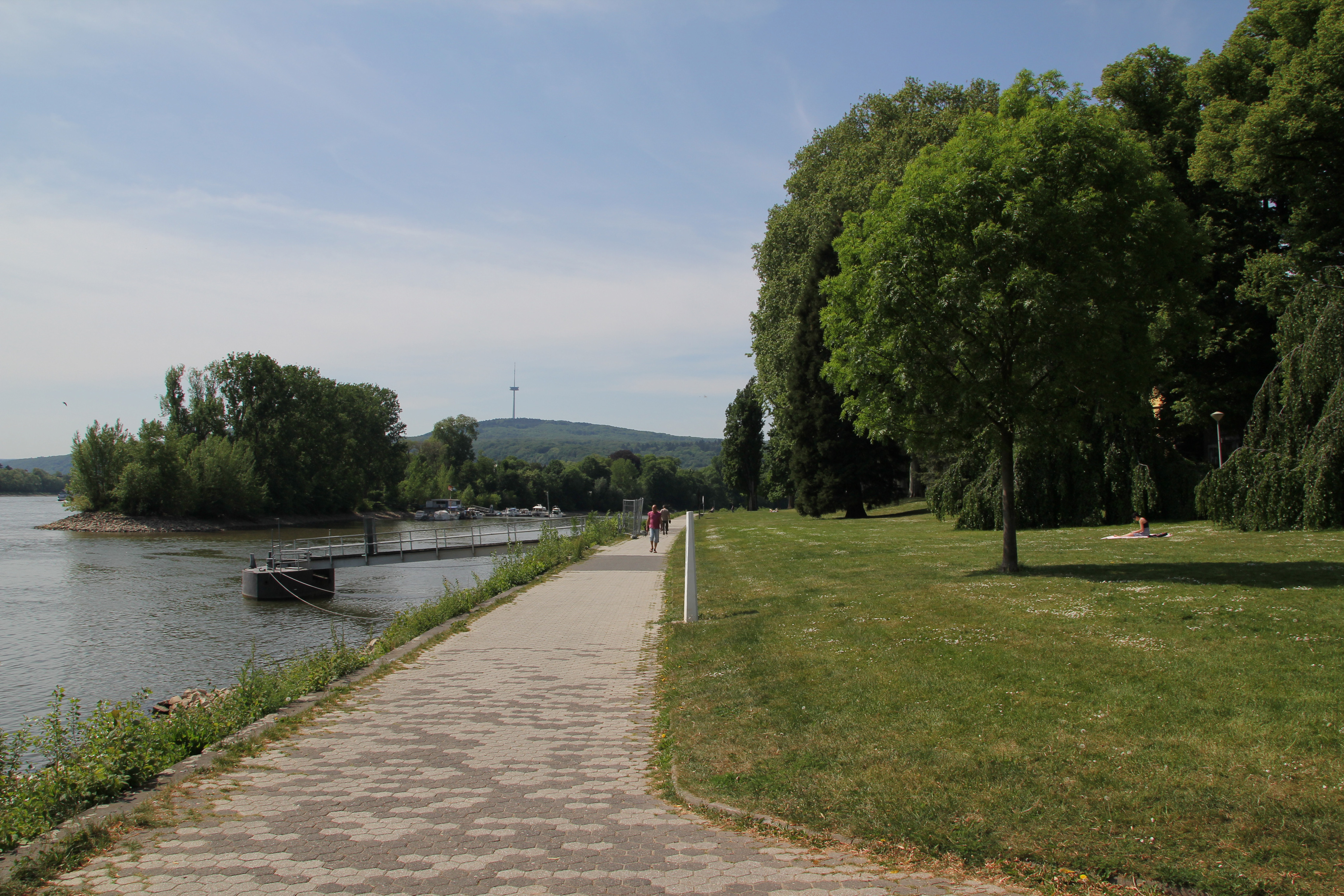 Rhine park in Koblenz